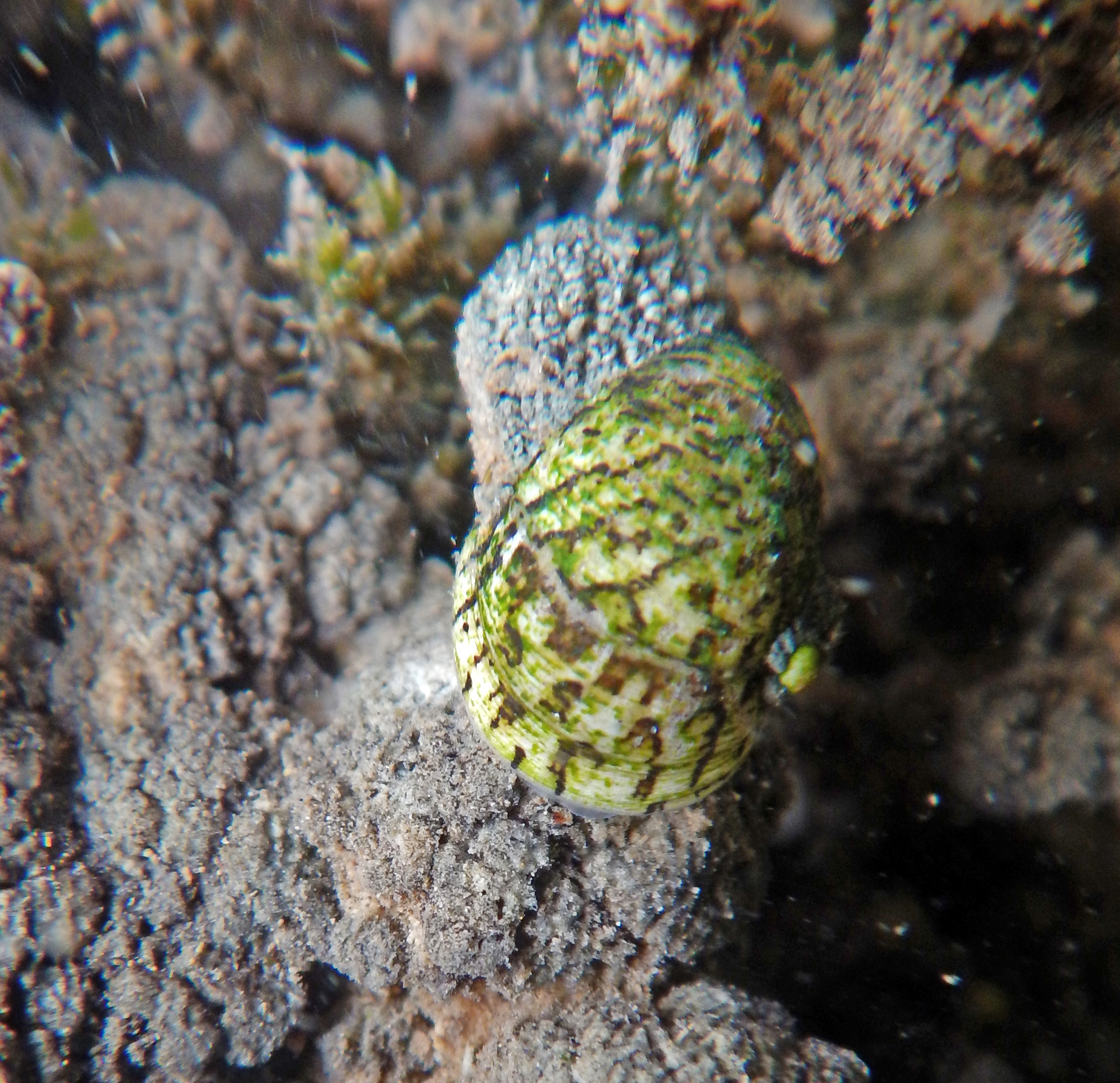 Theodoxus fluviatilis here photographed in a mineral encrustation active area (algal and or bacterial origin) photographed (in August 2016) on the bottom of the river "Sèvre Niortaise" in a shallow and well lit place, called "Roman Bridge of Azay-le-Brûlé "(France). On these crusts various invertebrates, including gammares and many Theodoxus can be observed. This section of the river is rich in crusting areas that typically form it from horizontal carpet aquatic of mosses (bryophyta) or vertical carpet of Marchantiophyta. Note: Not very thick crust (more than a few cm thick) are found on the battery or the medieval bridge on rocks a priori old, suggesting that the phenomenon is recent. Another note: the crusts are not on lead sinkers (metal toxic and Ecotoxical) neither on some rocks or on pieces of dead wood (to be confirmed by more attentive observations).